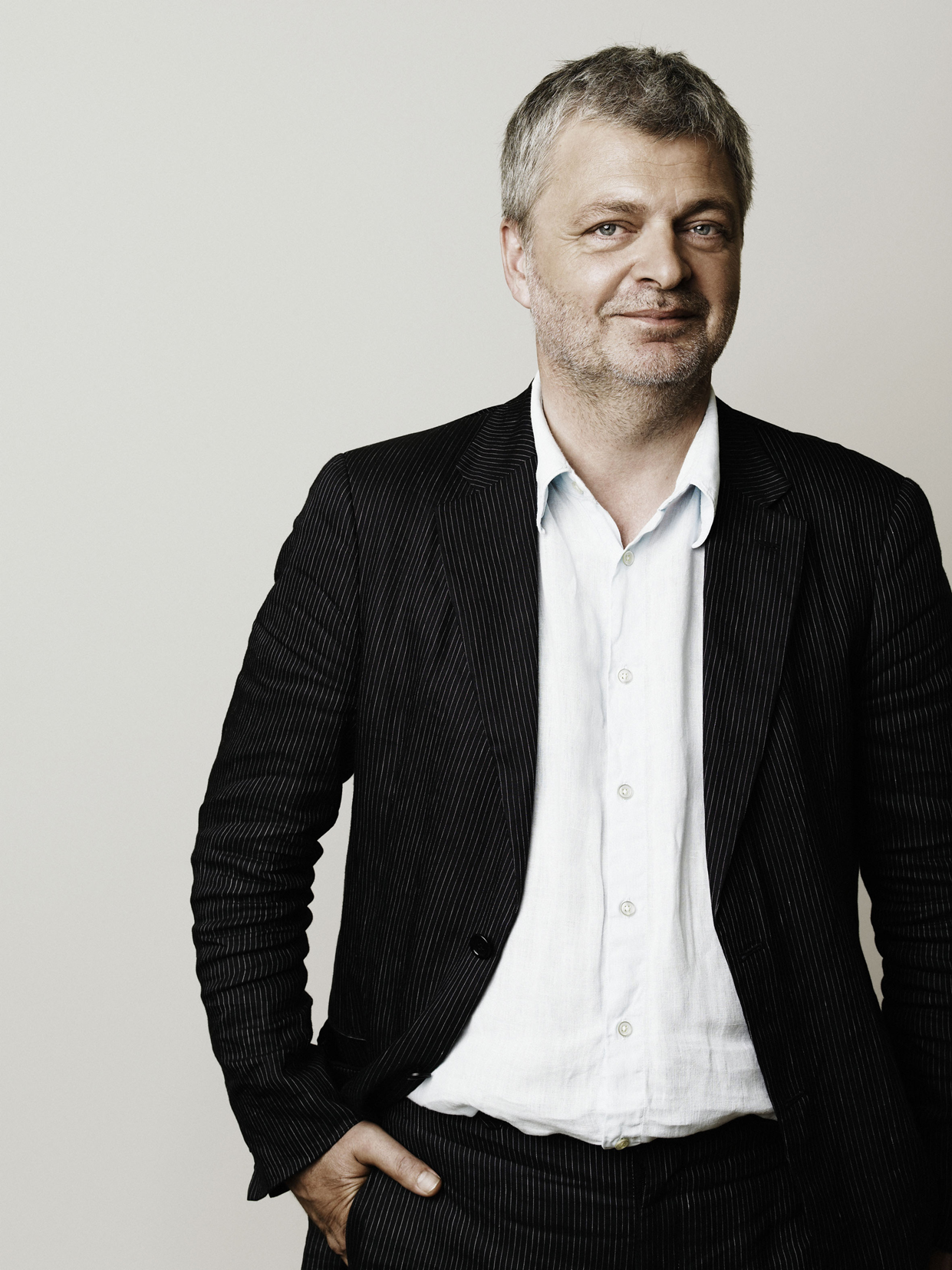 The austrian politician Karl Öllinger, member of the Green Party of Austria